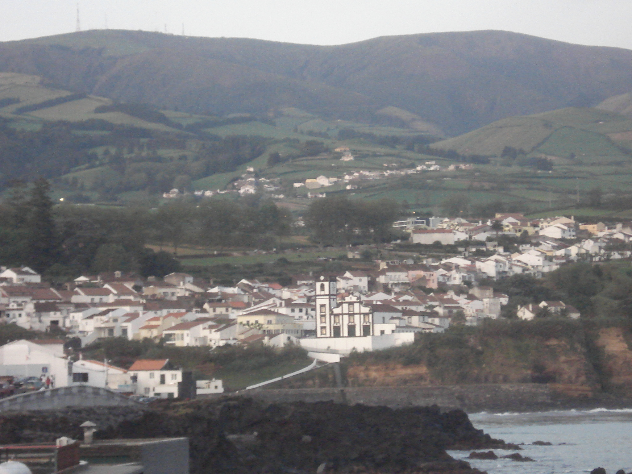 The civil parish of Santa Cruz, as seen from the public pools in Nossa Senhora do Rosário, in the municipality of Lagoa, São Miguel Island, Azores